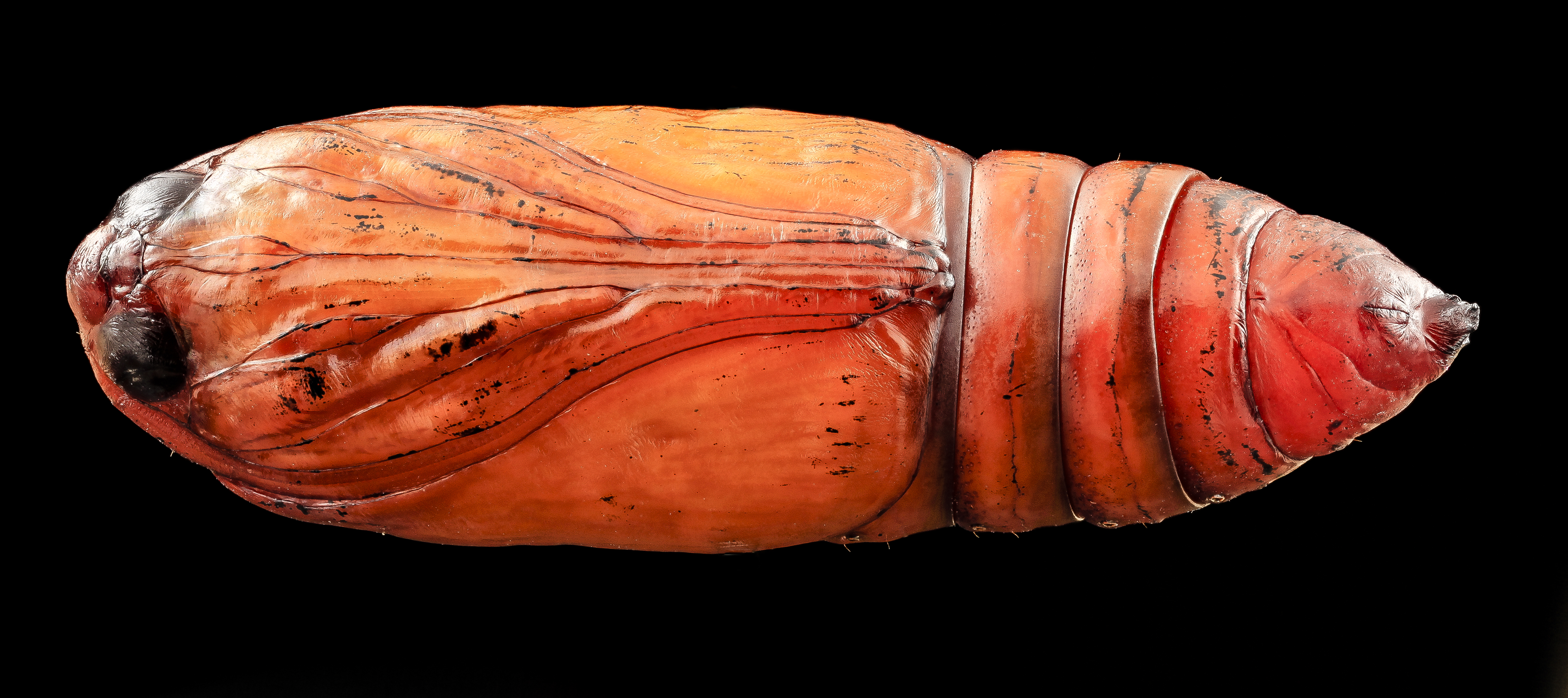 Pupae of Agrotis ipsilon - Black Cutworm - A major crop pest. This species moves into northern parts of North America after overwintering in Texas and Mexico and then pulls off a couple of generations in weedy fields and particularly impacting newly planted corn. Photography Information: Canon Mark II 5D, Zerene Stacker, Stackshot Sled, 65mm Canon MP-E 1-5X macro lens, Twin Macro Flash in Styrofoam Cooler, F5.0, ISO 100, Shutter Speed 200